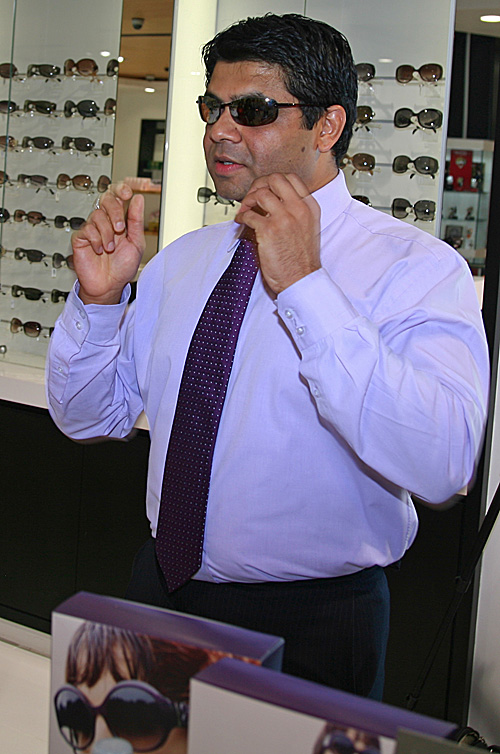 Aiyaz Sayed-Khaiyum